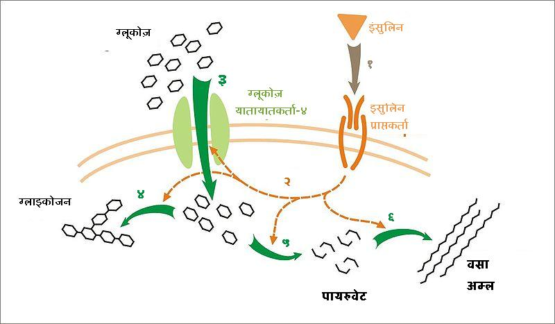 Effect of insulin on glucose uptake and metabolism. Insulin binds to its receptor (1) which in turn starts many protein activation cascades (2). These include: translocation of Glut-4 transporter to the hi:plasma membrane and influx of glucose (3), hi:glycogen synthesis (4), hi:glycolysis (5) and hi:fatty acid synthesis (6).